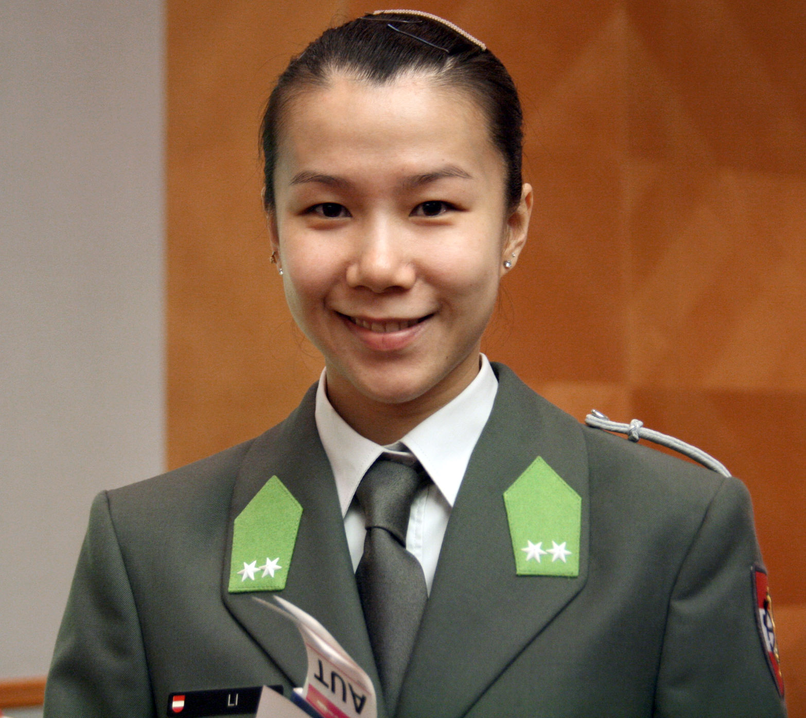 Table tennis player Li Qiangbing at the hand-out of the Austrian teams official attire for the 2012 Summer Olympics in London (Marriott, Vienna).